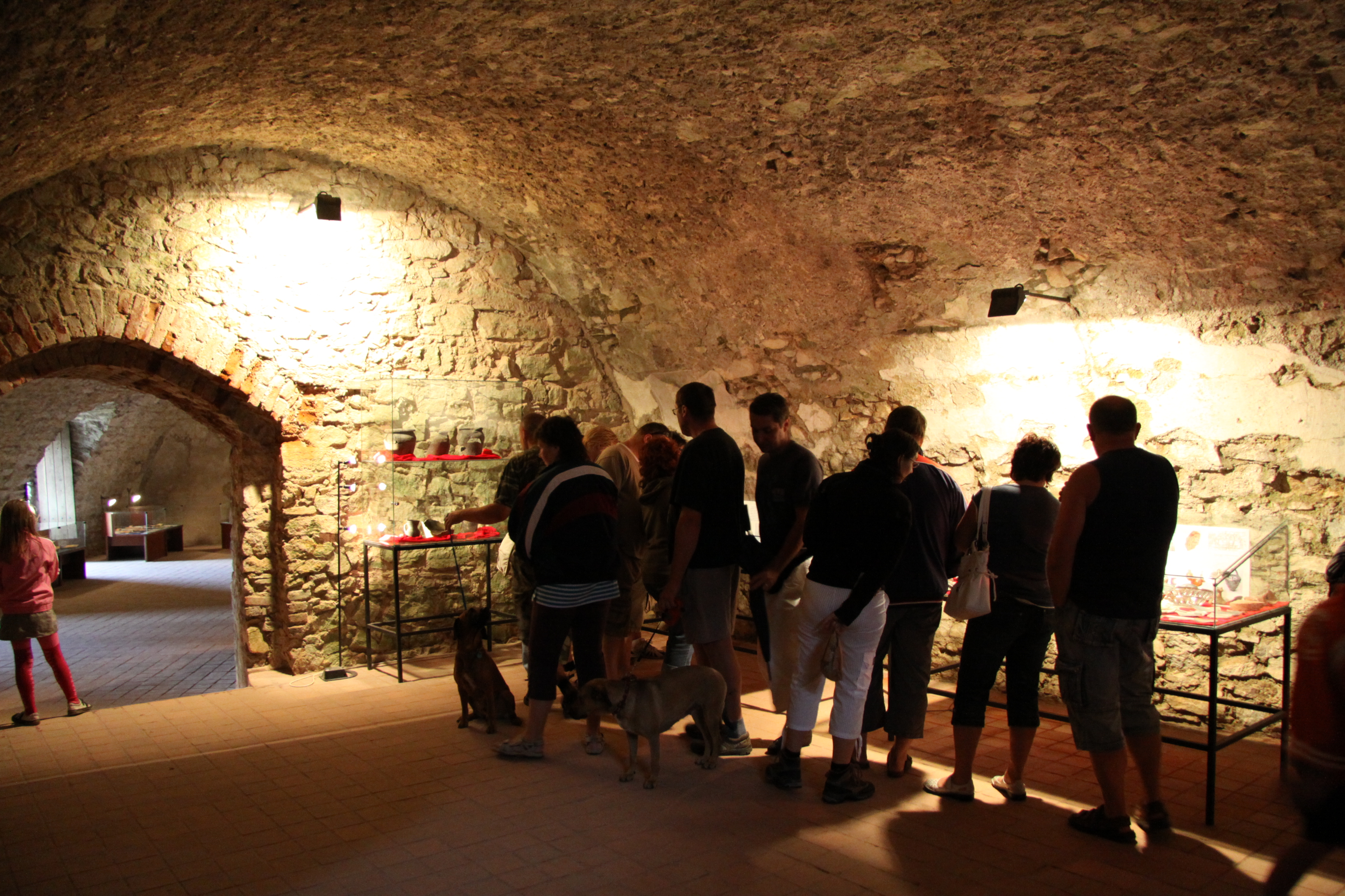 Interiers of Rabí Castle where are expositions of founded items. District Klatovy, Czech Republic - Google Maps - Google Earth